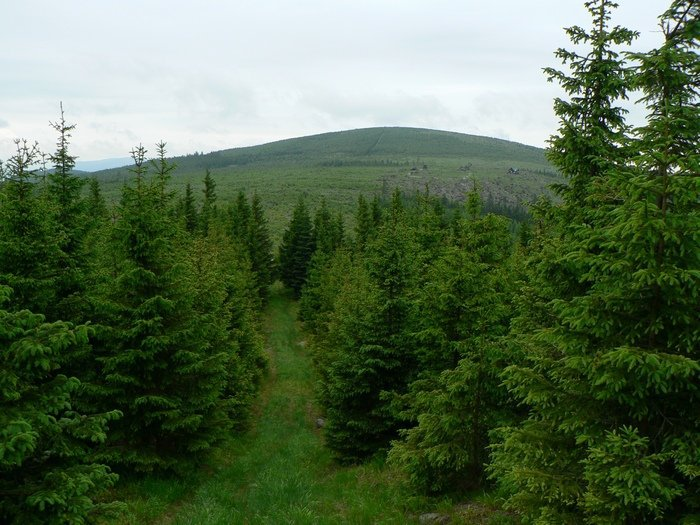 Orlik, the third highrst mountain of NE Hruby Jesenik from Medvedi vrch.